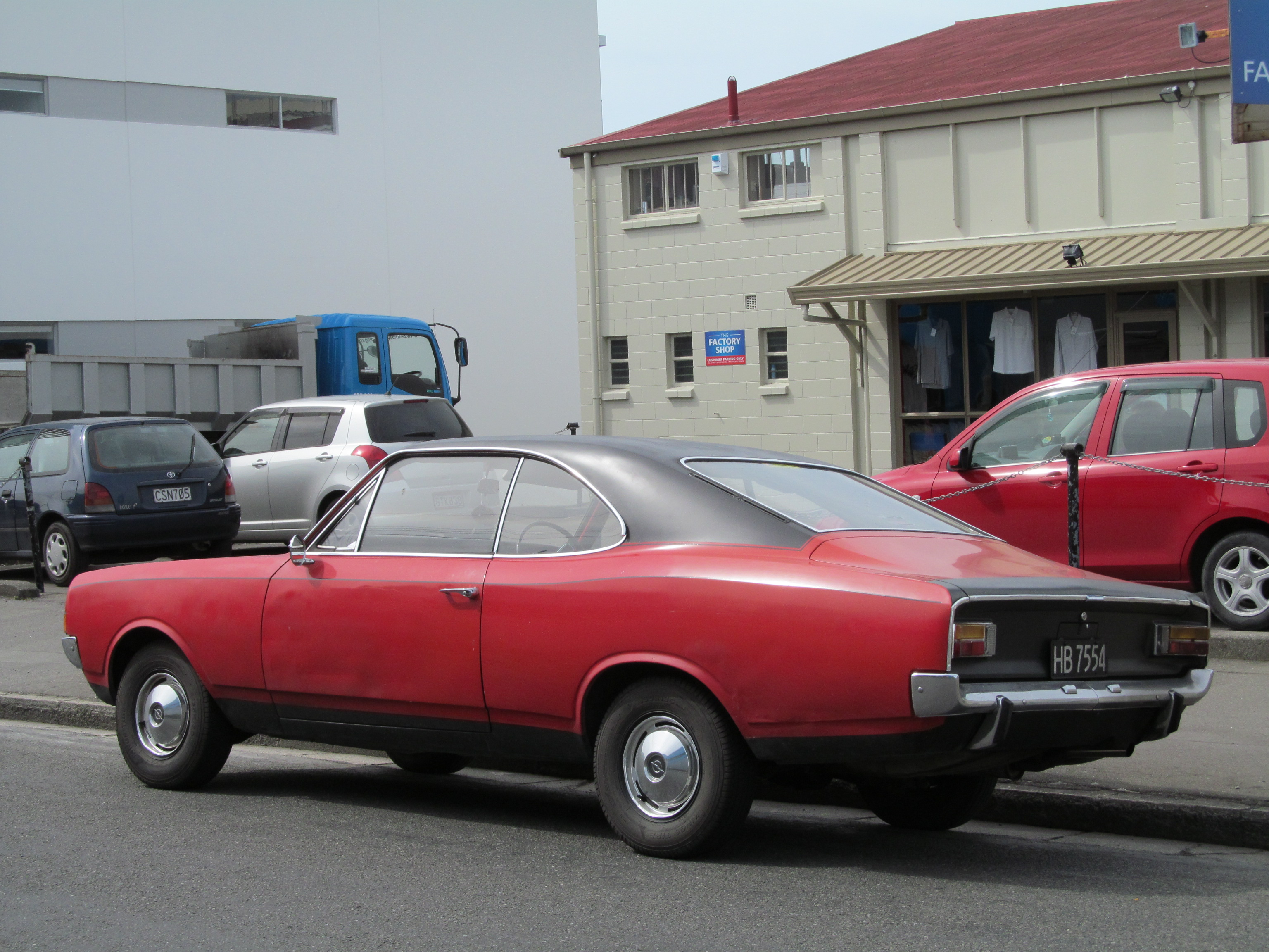 HB7554 From here you can definitely see the resemblance to the Australian Holden Monaro of the same era, which would make sense given that Holden and Opel are both part of GM. THe thing that sticks out immediately is the 'Coke-bottle' design, similar to the HB Vauxhall Viva, FD Vauxhall Victor and Mk3 Ford Cortina. As you can see the paint is a bit patchy in places, which only adds to the appeal in my opinion!